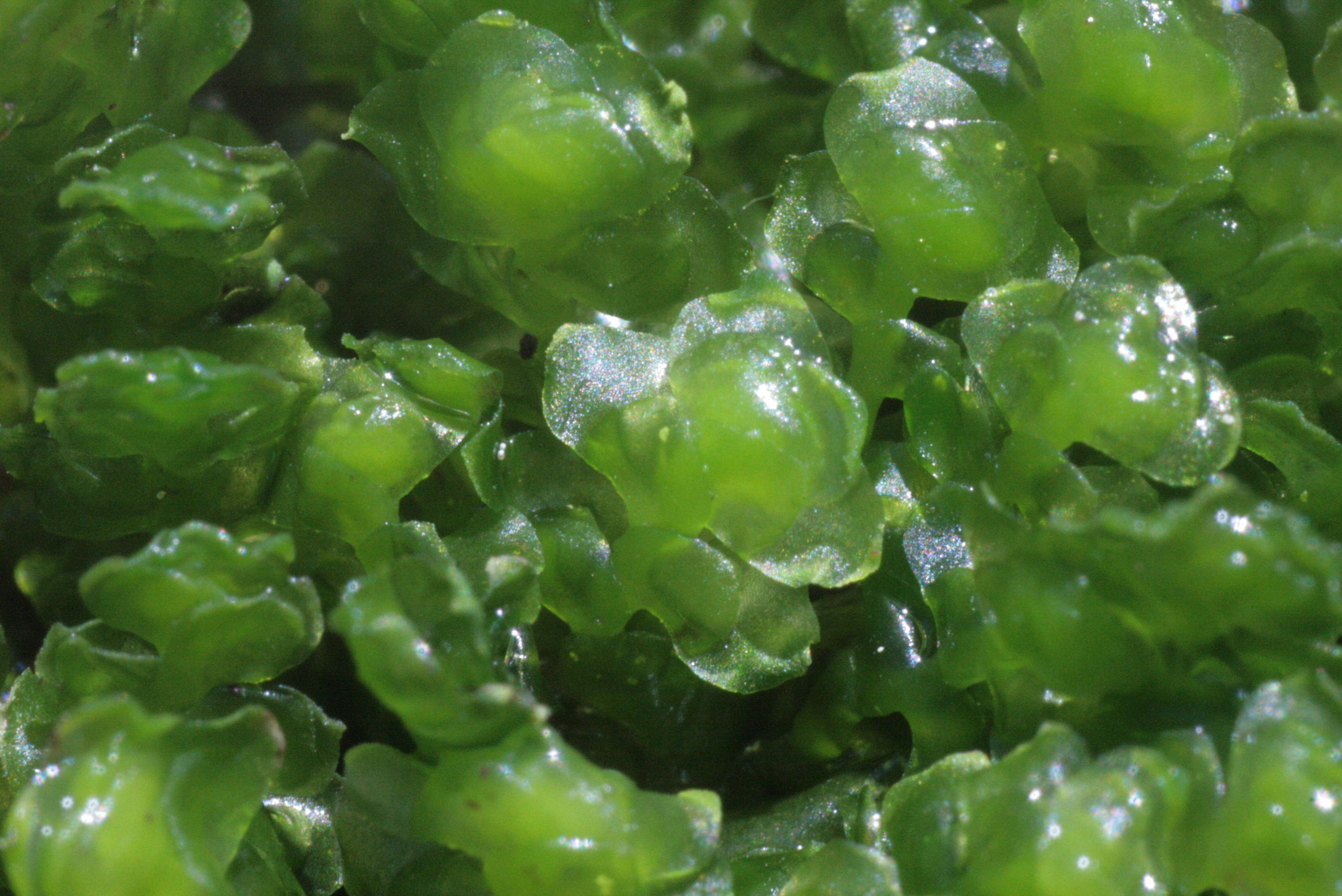 Scapania undulata